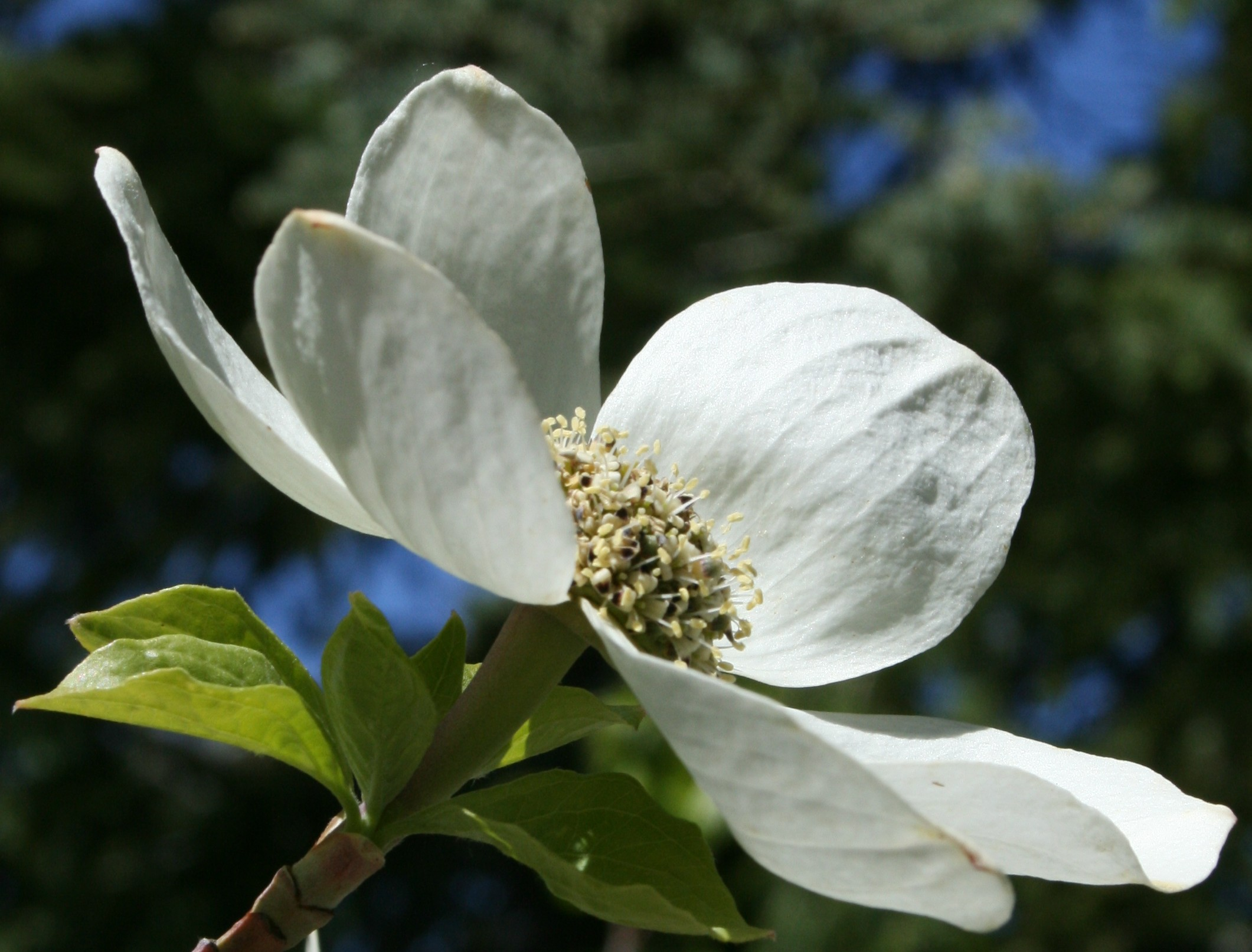 Photo: Molly Simonson